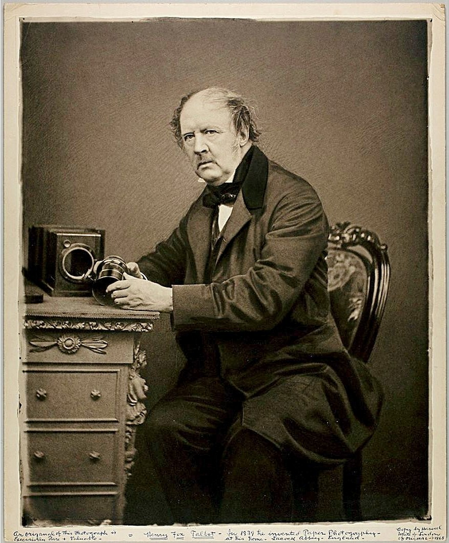 John Moffat (Scottish, 1819–1894). William Henry Fox Talbot, 1864. Carbon print, printed 1948 by Harold White. George Eastman Museum, gift of Mrs. Alden Scott Boyer.